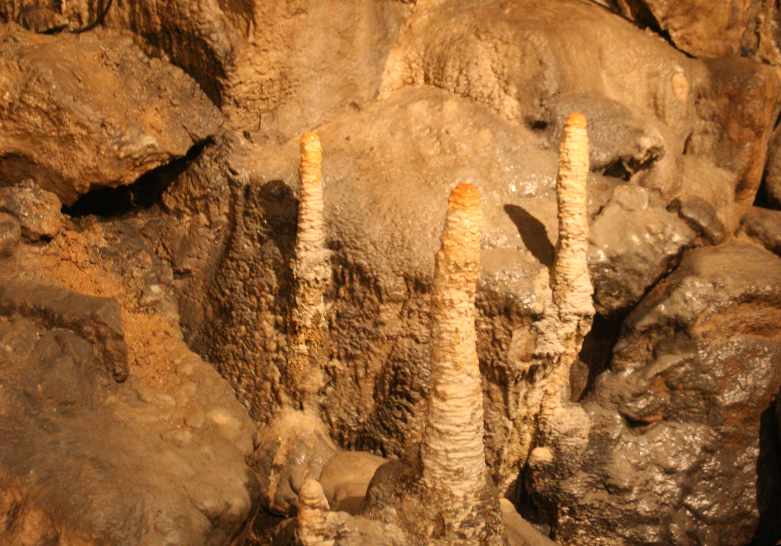 "Poached egg" stalagmites in Poole's Cavern, in Buxton, Derbyshire, England.